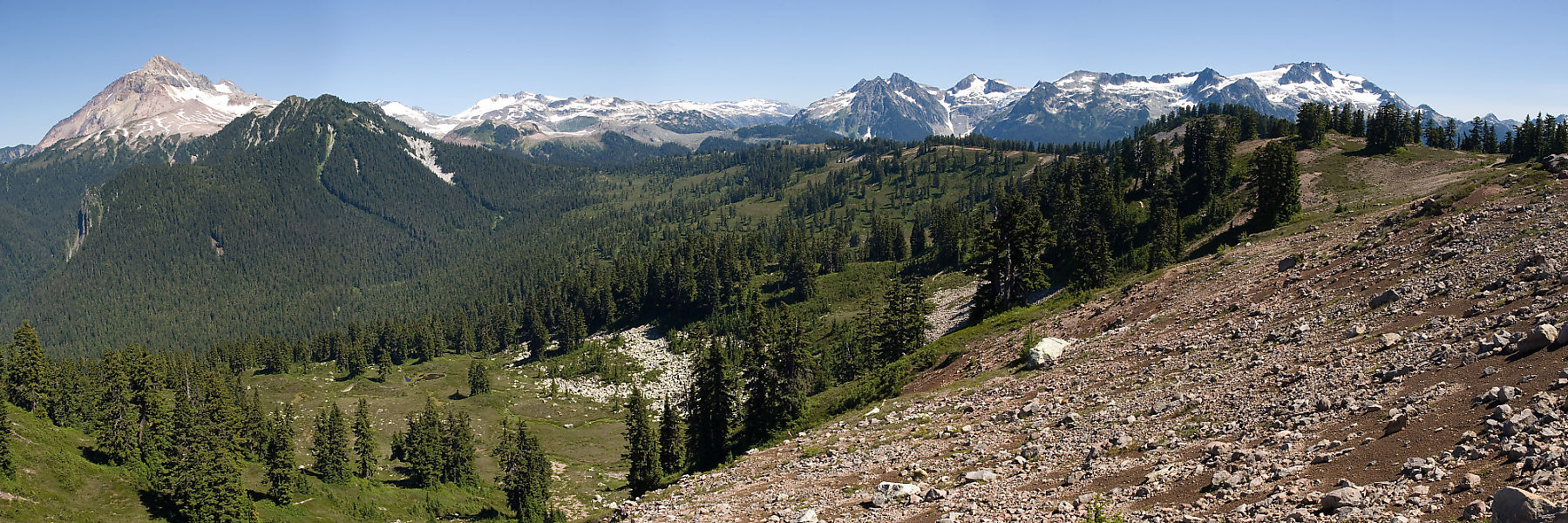 This is a panorama from Paul Ridge looking toward Diamond Head, Garibaldi Provincial Park, B.C., Canada